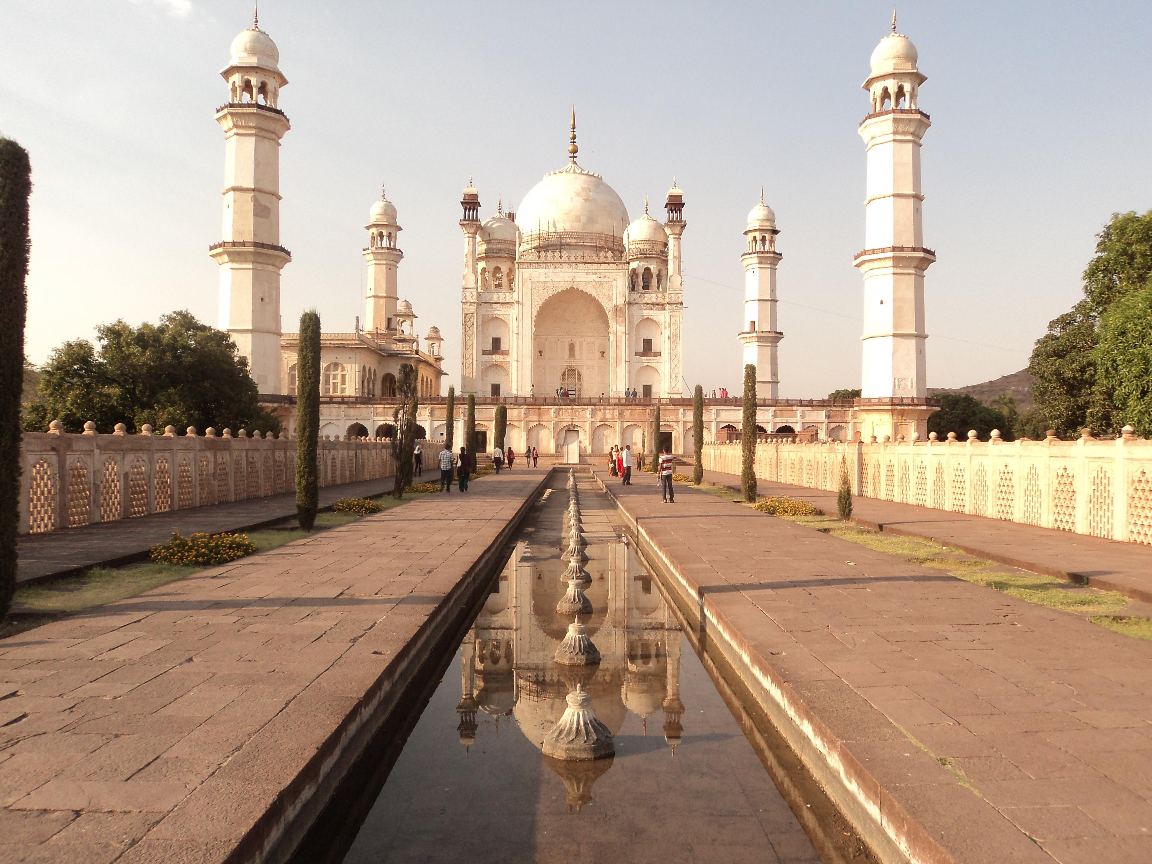 Bibi ka Maqbara, Aurangabad.